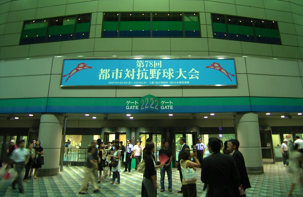 The Intercity Baseball Tournament 2007